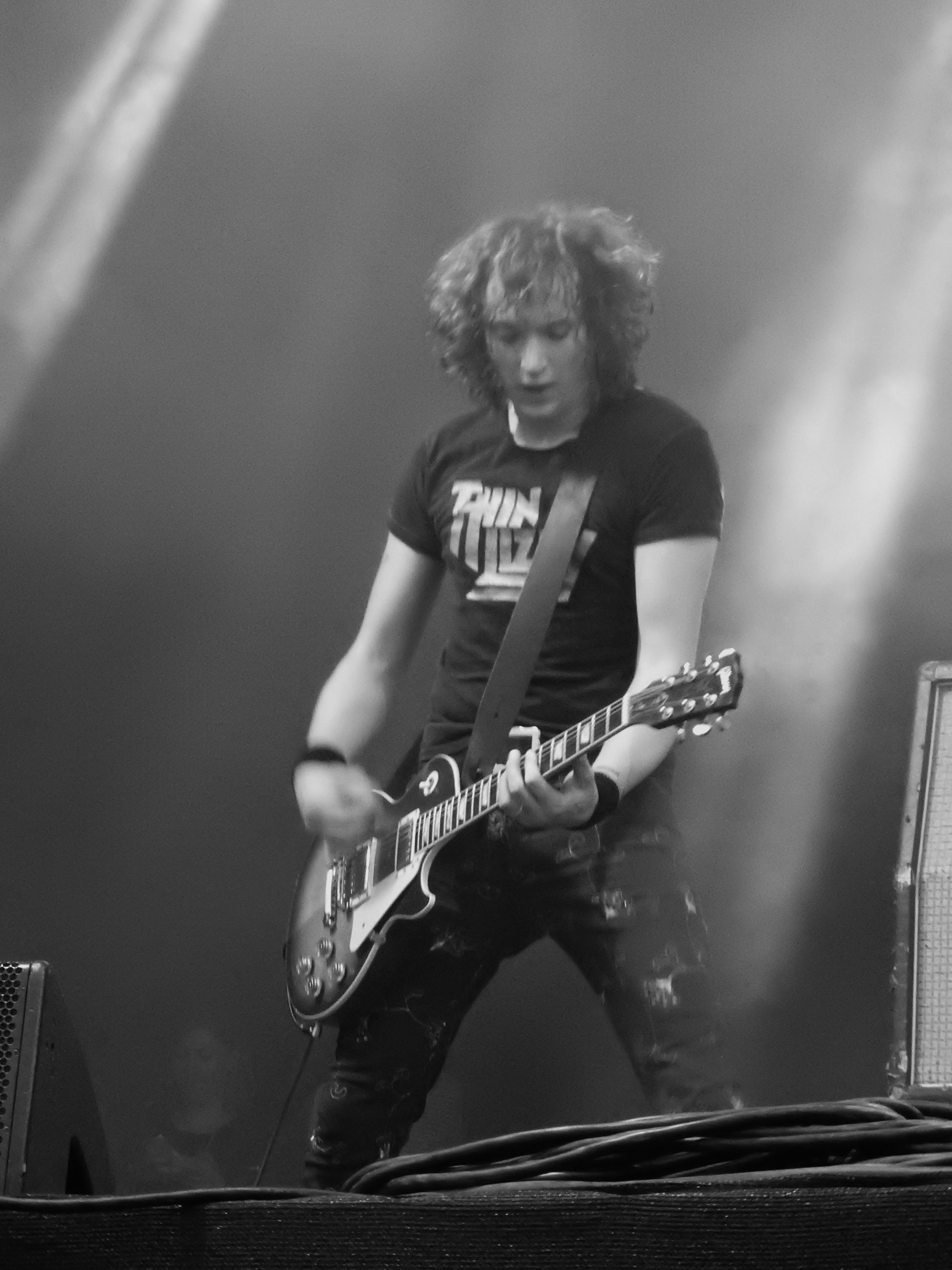 The Darkness, Victorious Festival, Portsmouth